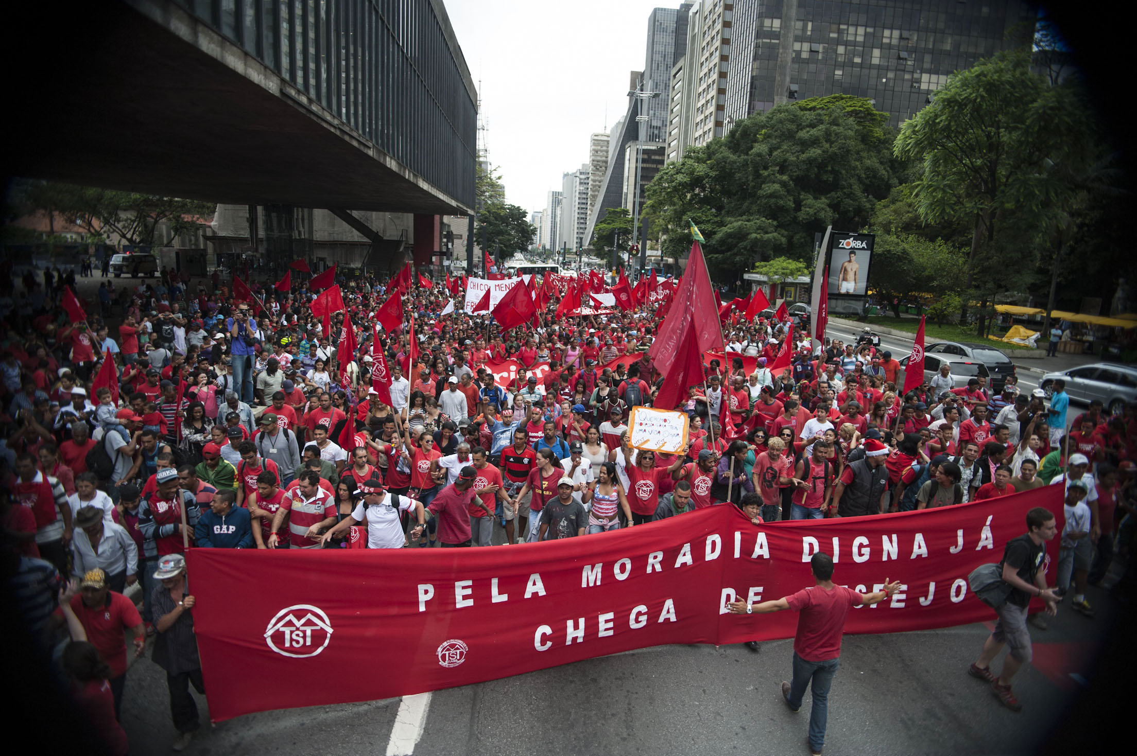 São Paulo - Homeless people claim affordable housing at Avenida Paulista .